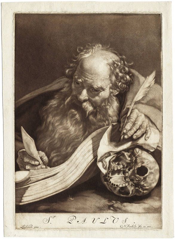 The apostle paul reading by candlelight, with a large open book leaning on a skull, seen from below. Mezzotint